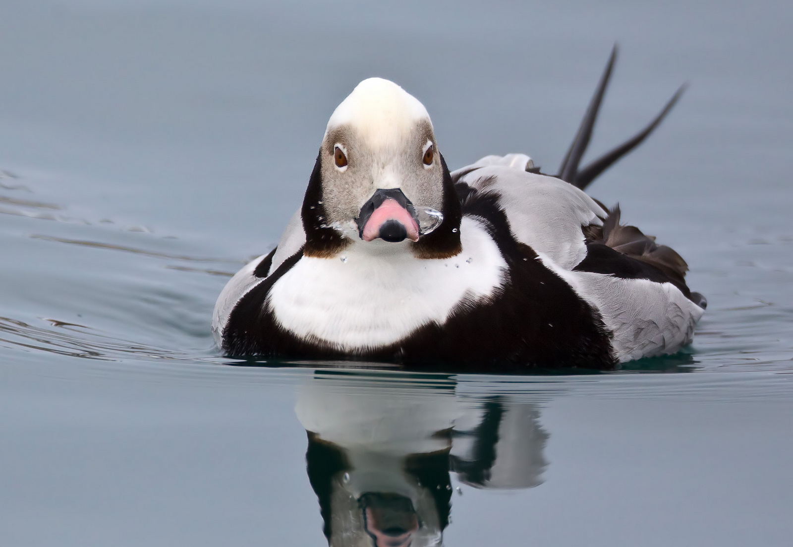 An adult male Long-tailed Duck in Hokkaido, Japan.